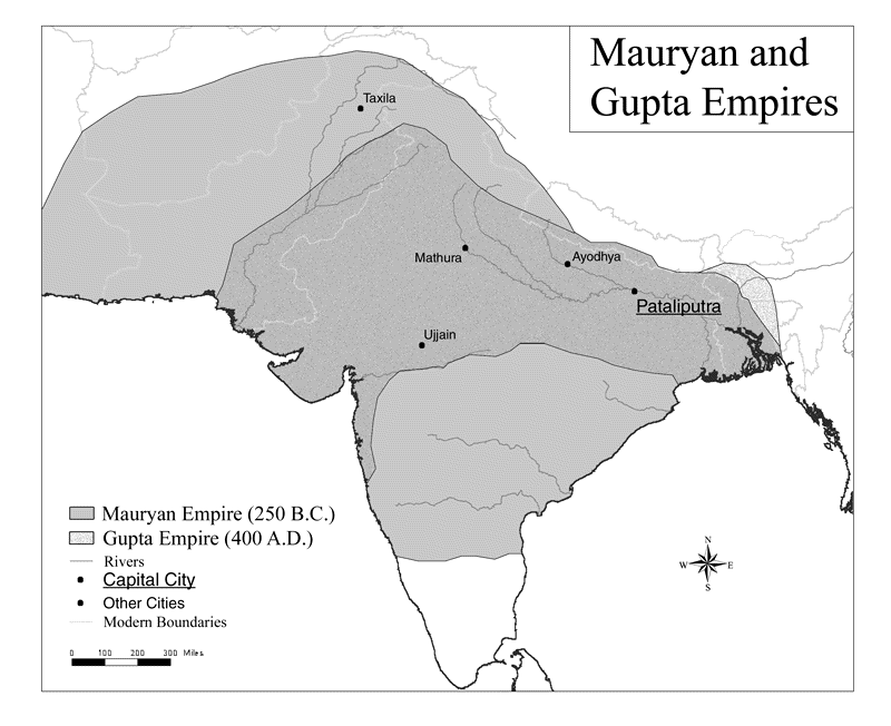 This map of the Mauryan and Gupta empires was made by me.